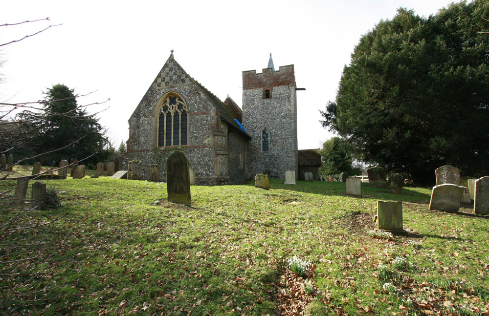 St Mary, Crundale, Kent